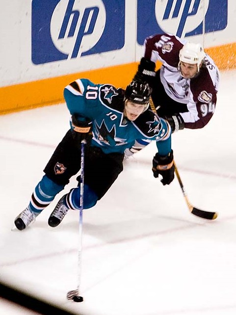 Colorado Avalanche forward Ryan Smyth in pursuit of San Jose Sharks defenceman Christian Ehrhoff as he rushes the puck up the ice from his defensive zone.